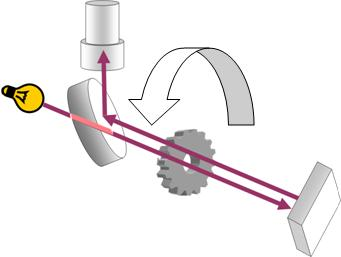 Fizeau notched wheel for speed of light